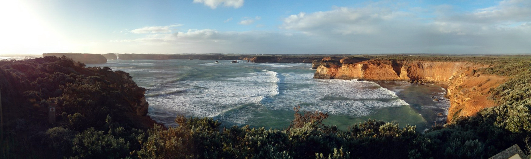 Panoramic view (from roughly W to NE) of a portion of the Bay of Islands, in the Bay of Islands Coastal Park on the Great Ocean Road, as viewed near sunset.